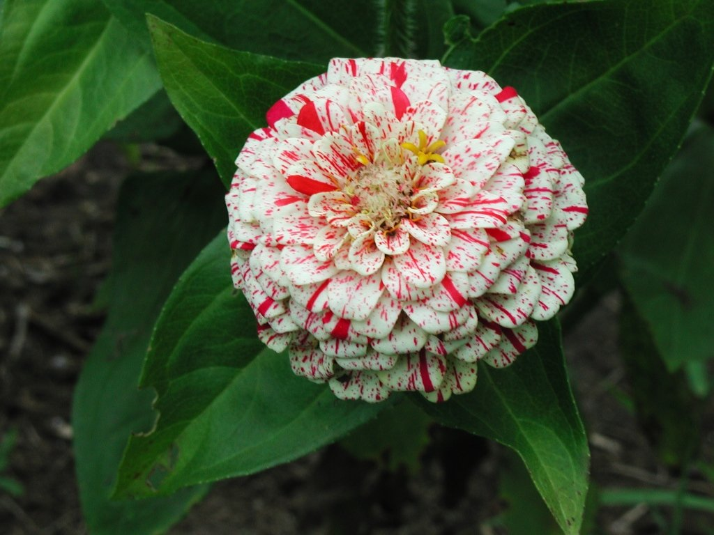 Zinnia Peppermint Stick